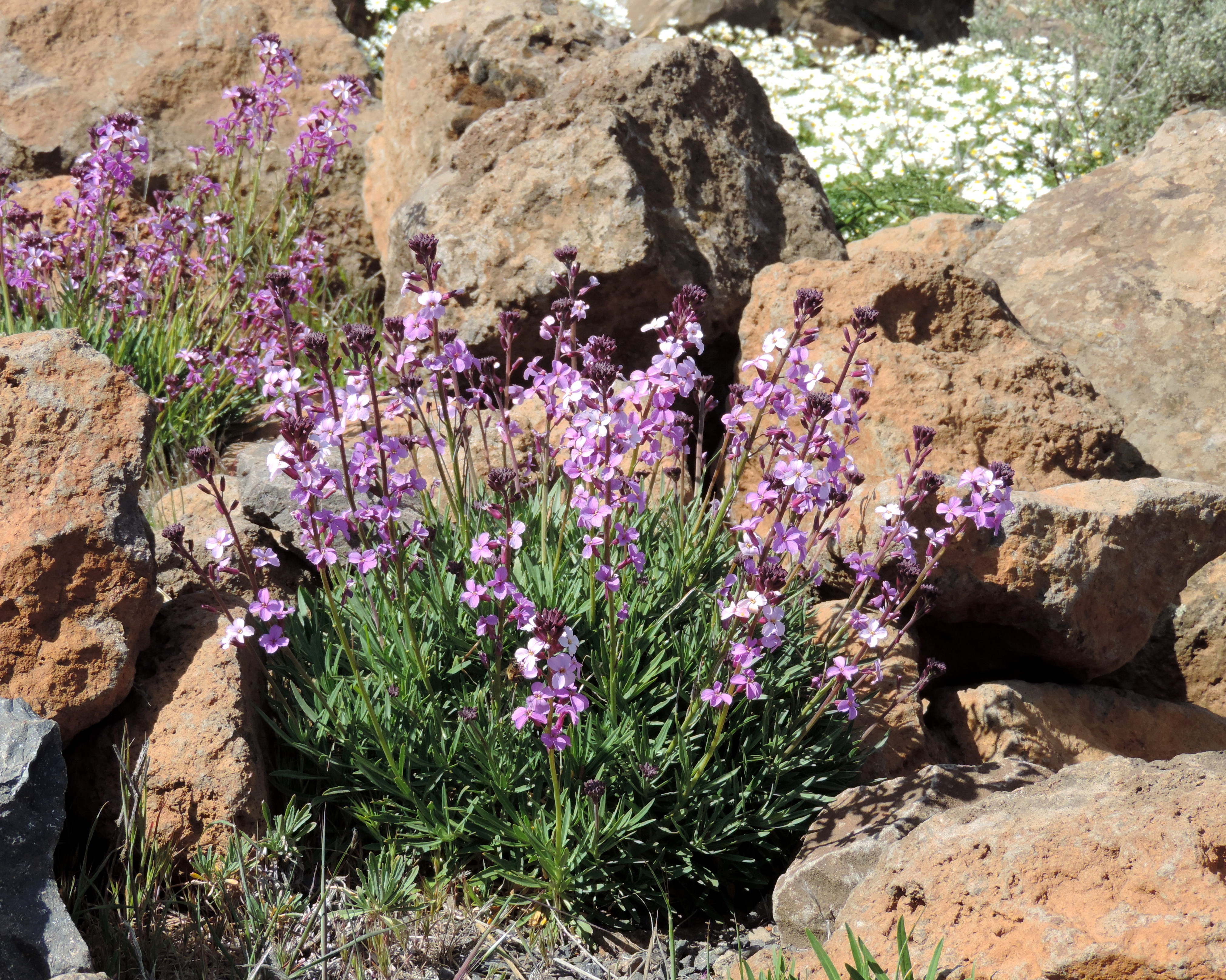 Erysimum bicolor on Cascajares, Gran Canaria